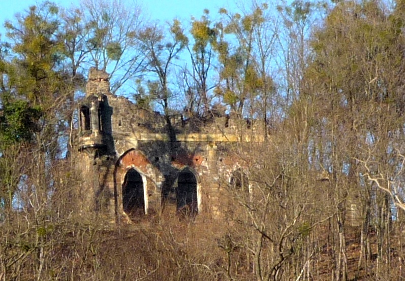 Artificial ruin near Pillnitz Castle in winter